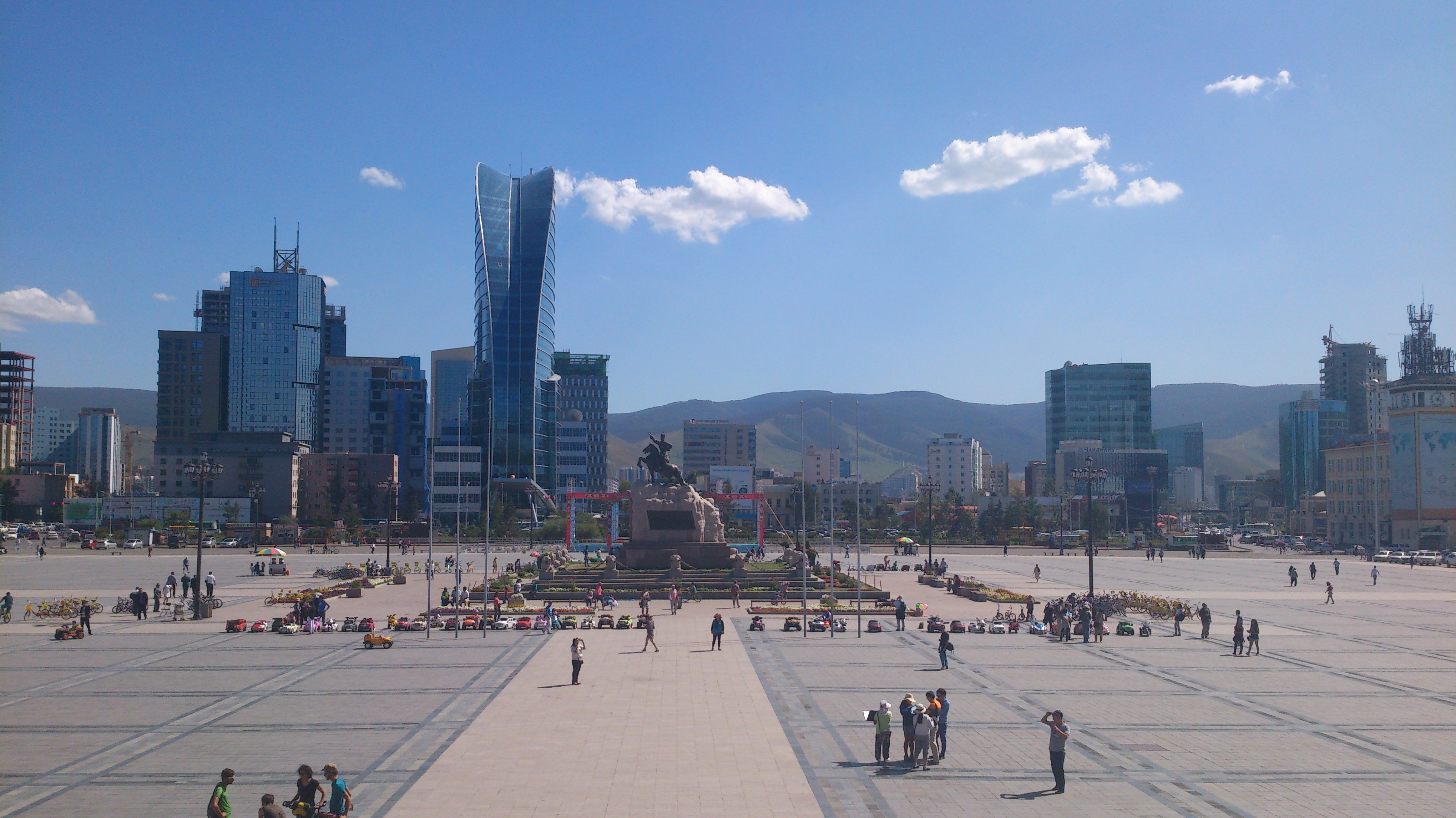 Chinggis Square, Ulan Bator, Mongolia (previously known as Sükhbaatar Square).